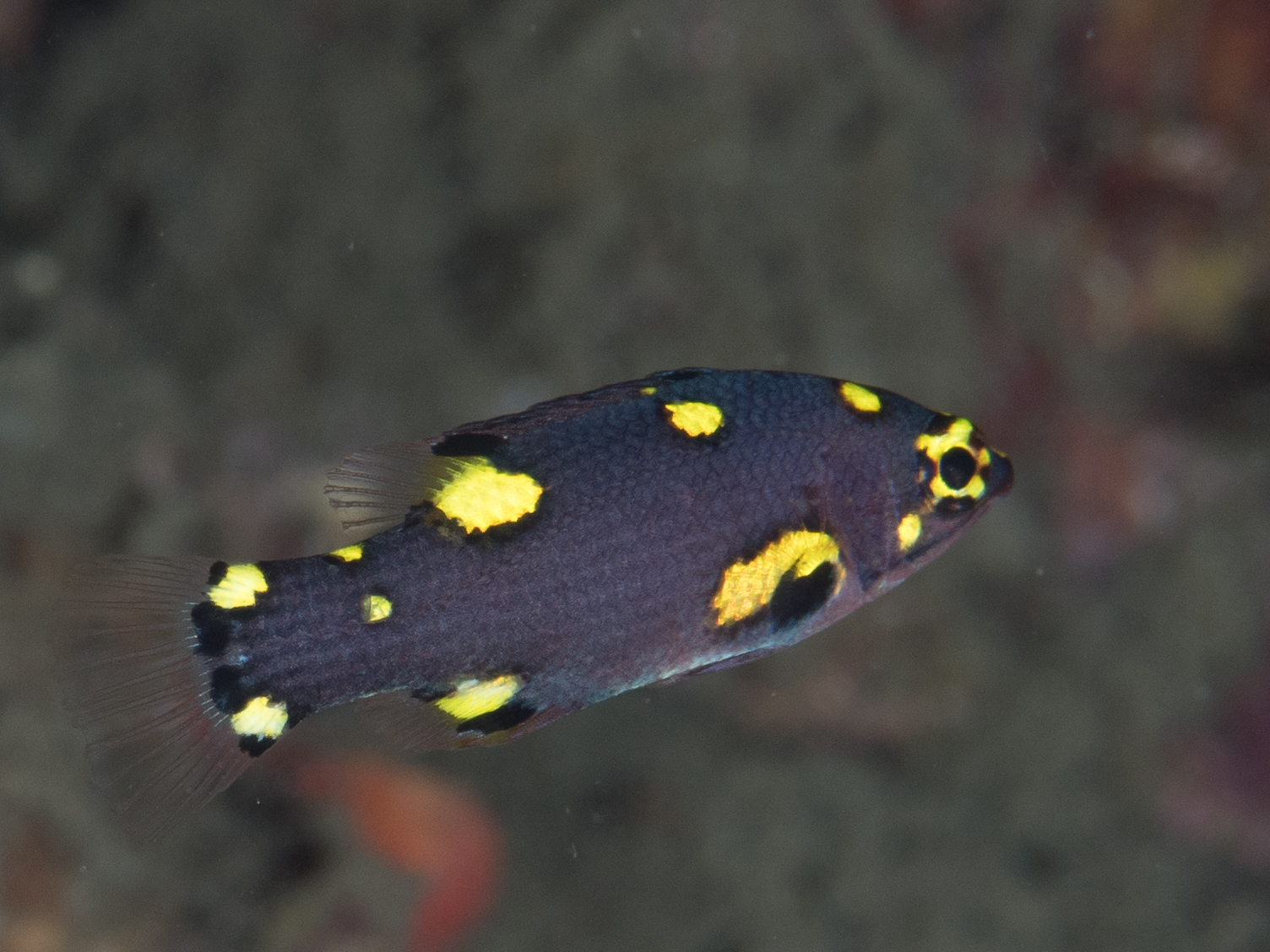 Lembeh, Indonesia - Blackbelt hogfish juvenile (Bodianus mesothorax)